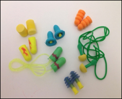 Earplugs